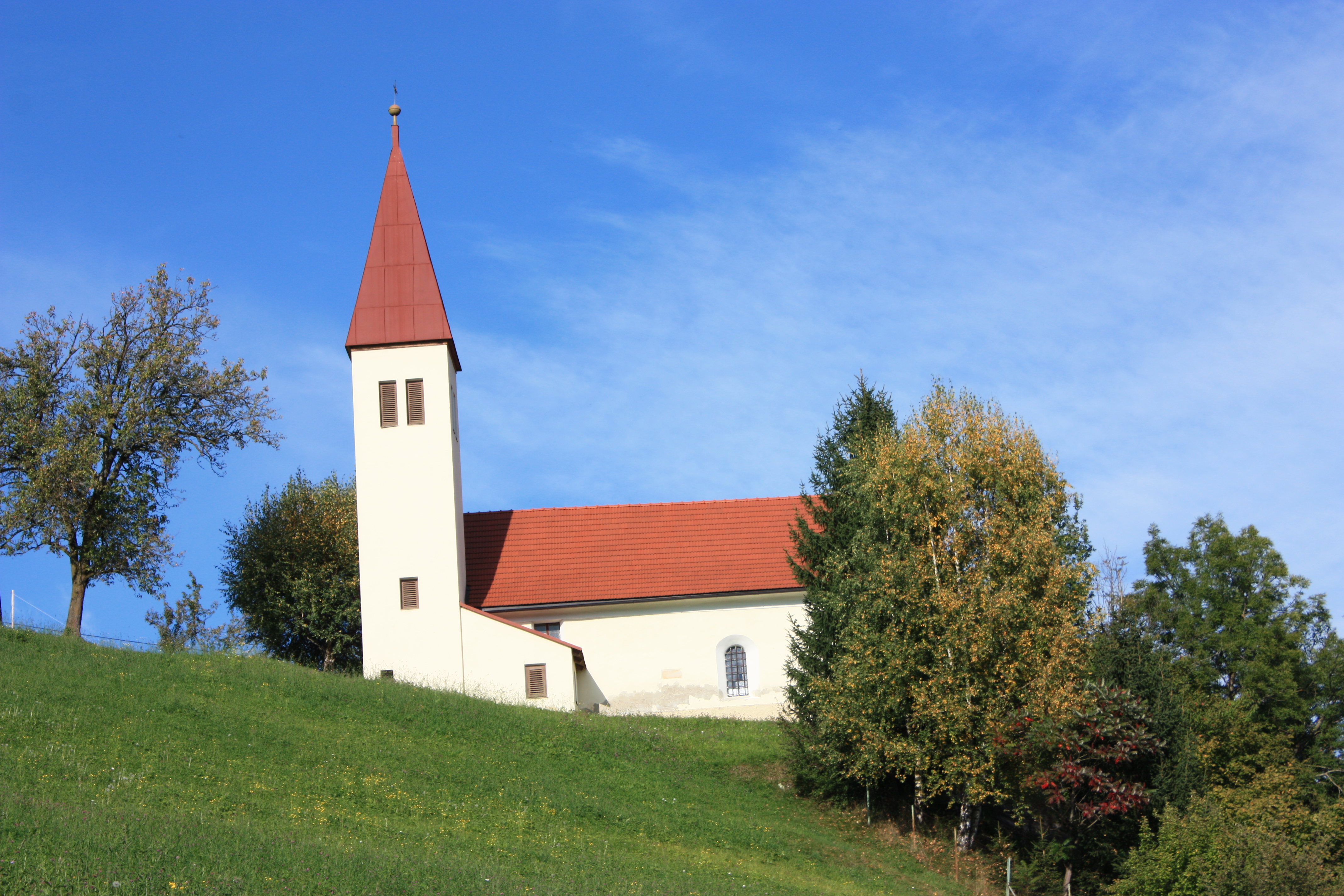 Subsidiary church Saint Lorenz Locality:Lieserhofen Community:Seeboden